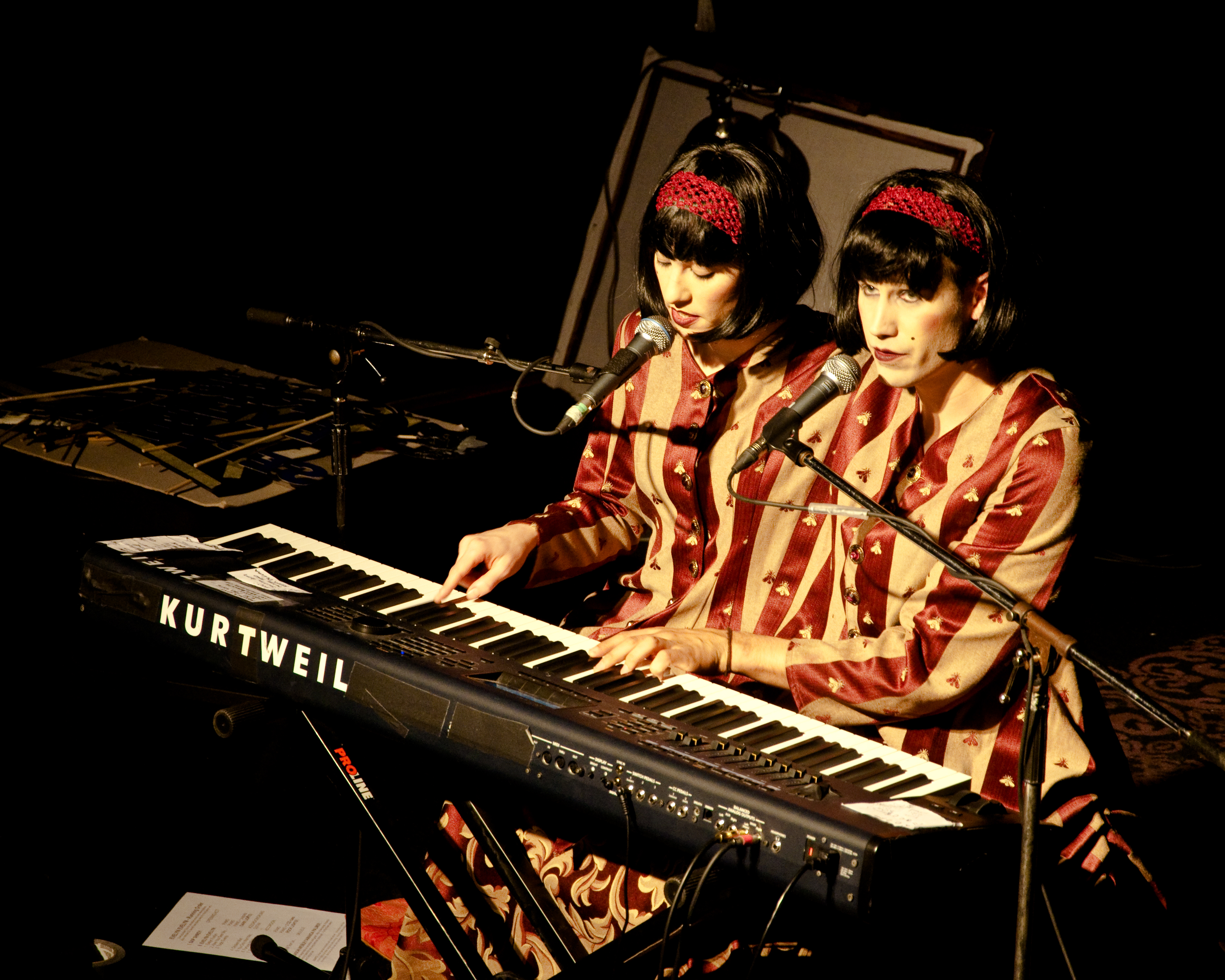 Evelyn Evelyn performing live